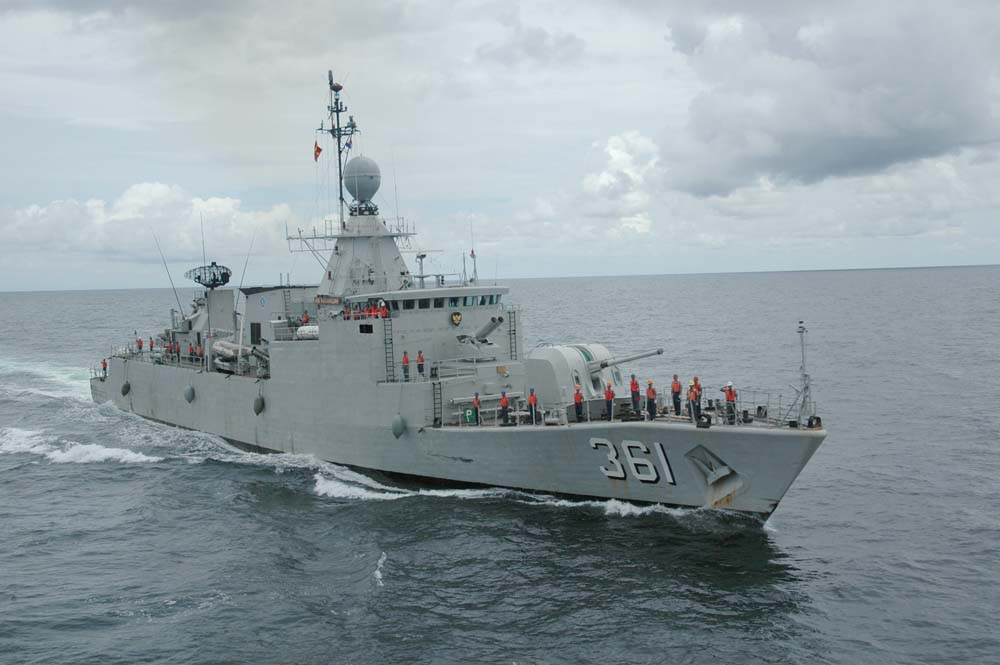 Indonesian Navy Fatahillah-class Corvette KRI Fatahillah (361).